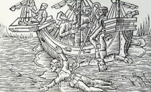 A Tudor woodcut print of Keelhauling.